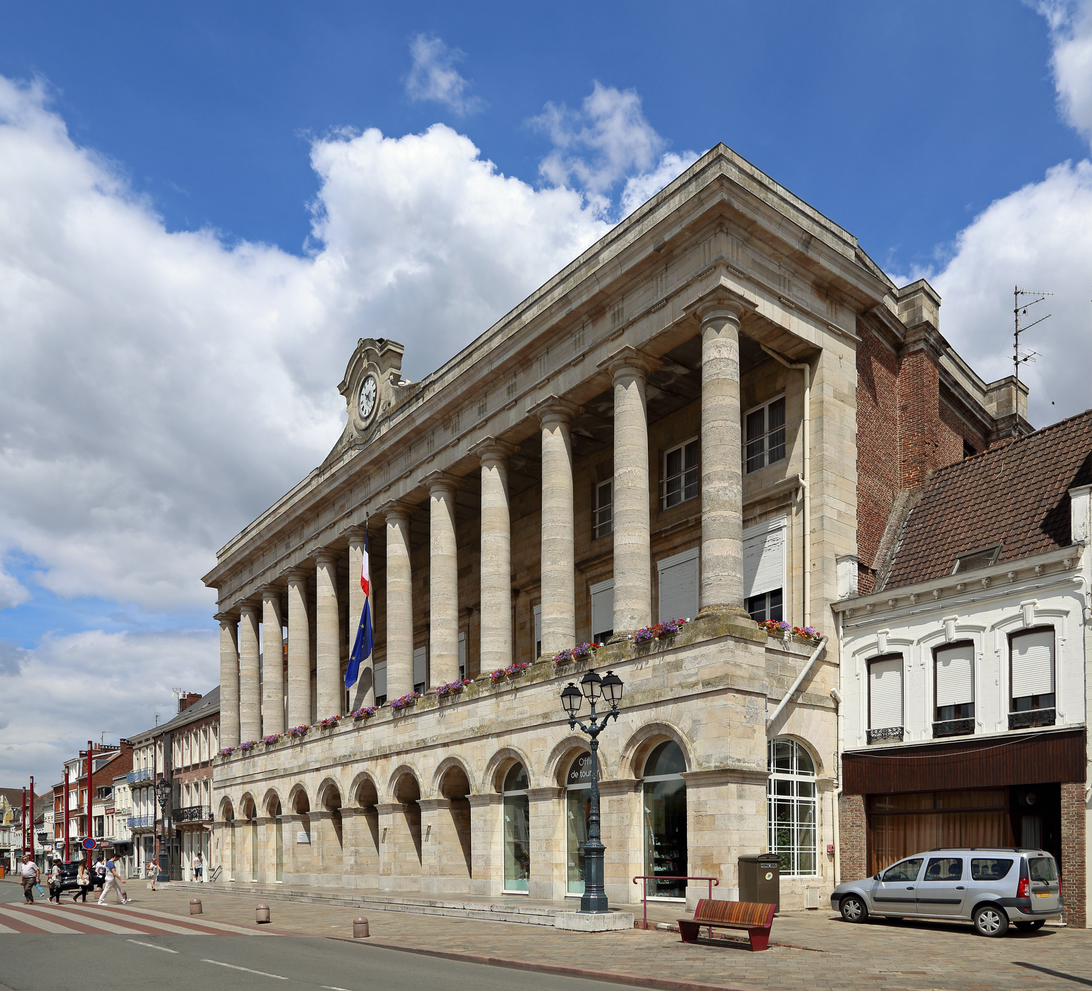 Hazebrouck (département du Nord, France): town hall